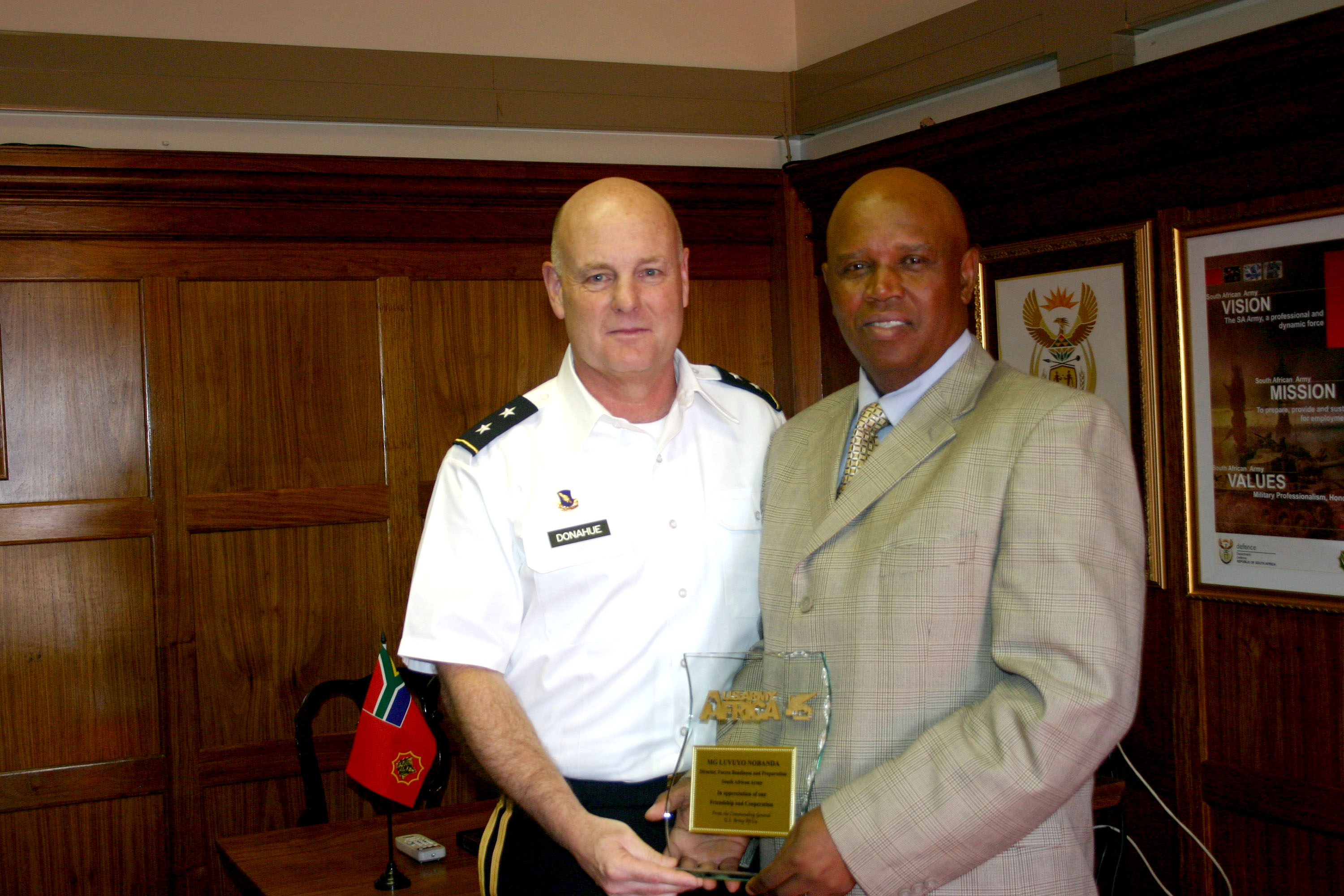 Maj. Gen. Patrick J. Donahue, commander of U.S. Army Africa, presents a plaque to Maj. Gen. Luvuyo Nobanda, Chief Director, Force Preparation, South Africa Army. (U.S. Army Africa photo)